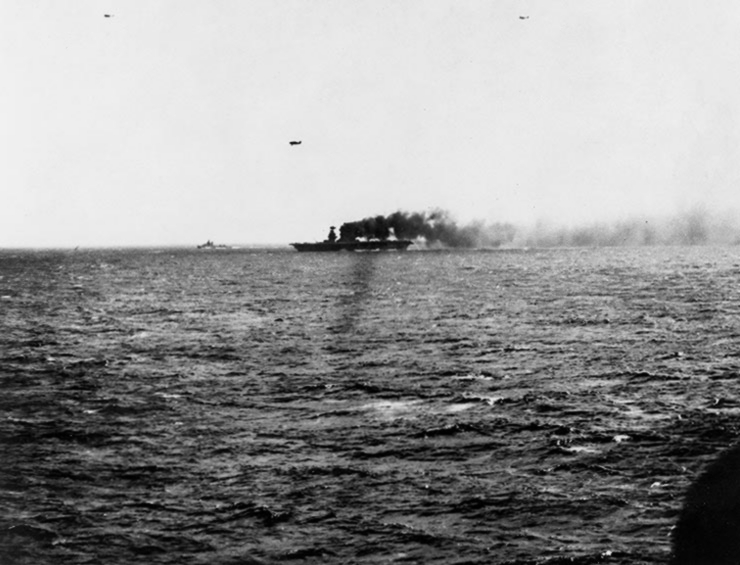 The U.S. Navy aircraft carrier USS Lexington (CV-2) afire and down at the bow, but still steaming and operating aircraft, shortly after she was hit by Japanese torpedoes and bombs during the Battle of the Coral Sea. This view was taken about noon on 8 May 1942, before the fires were extinguished from a bomb hit on the carrier's smokestack. The plane overhead is a Grumman F4F-3 Wildcat fighter.